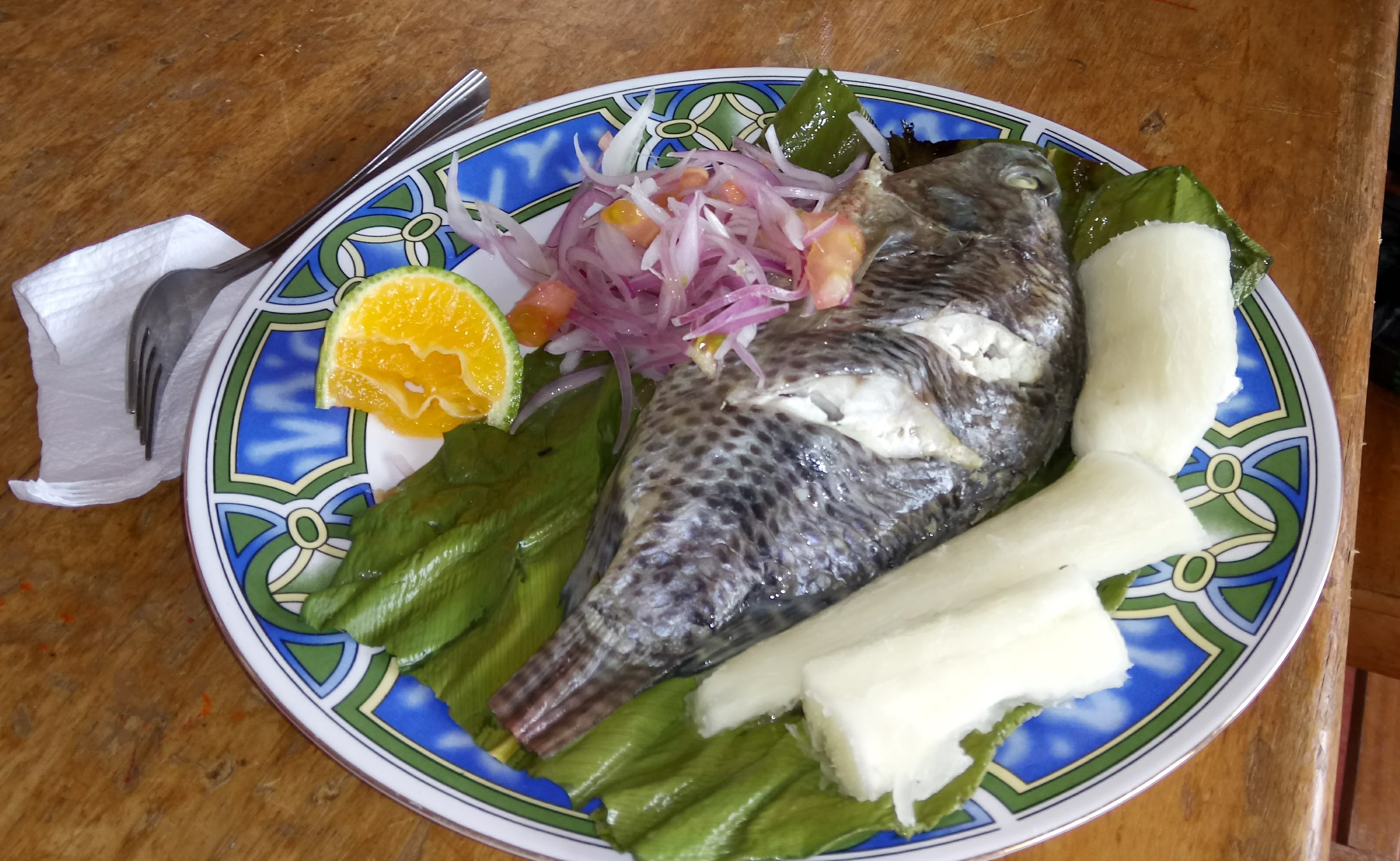 Maito de Tilapia, comida típica de los indígenas Quijos.